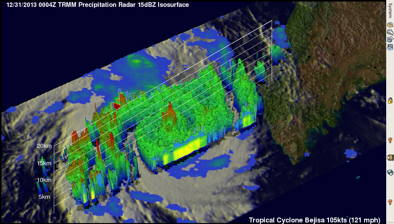 TRMM (Tropical Rainfall Measuring Mission) - Hurricane Bejisa